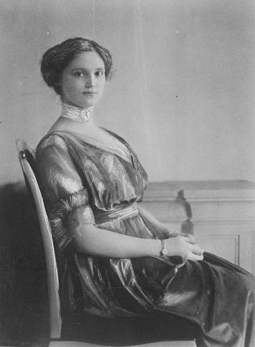 Princess Zita of Bourbon-Parma (1892–1989), later Empress of Austria and Queen of Hungary.